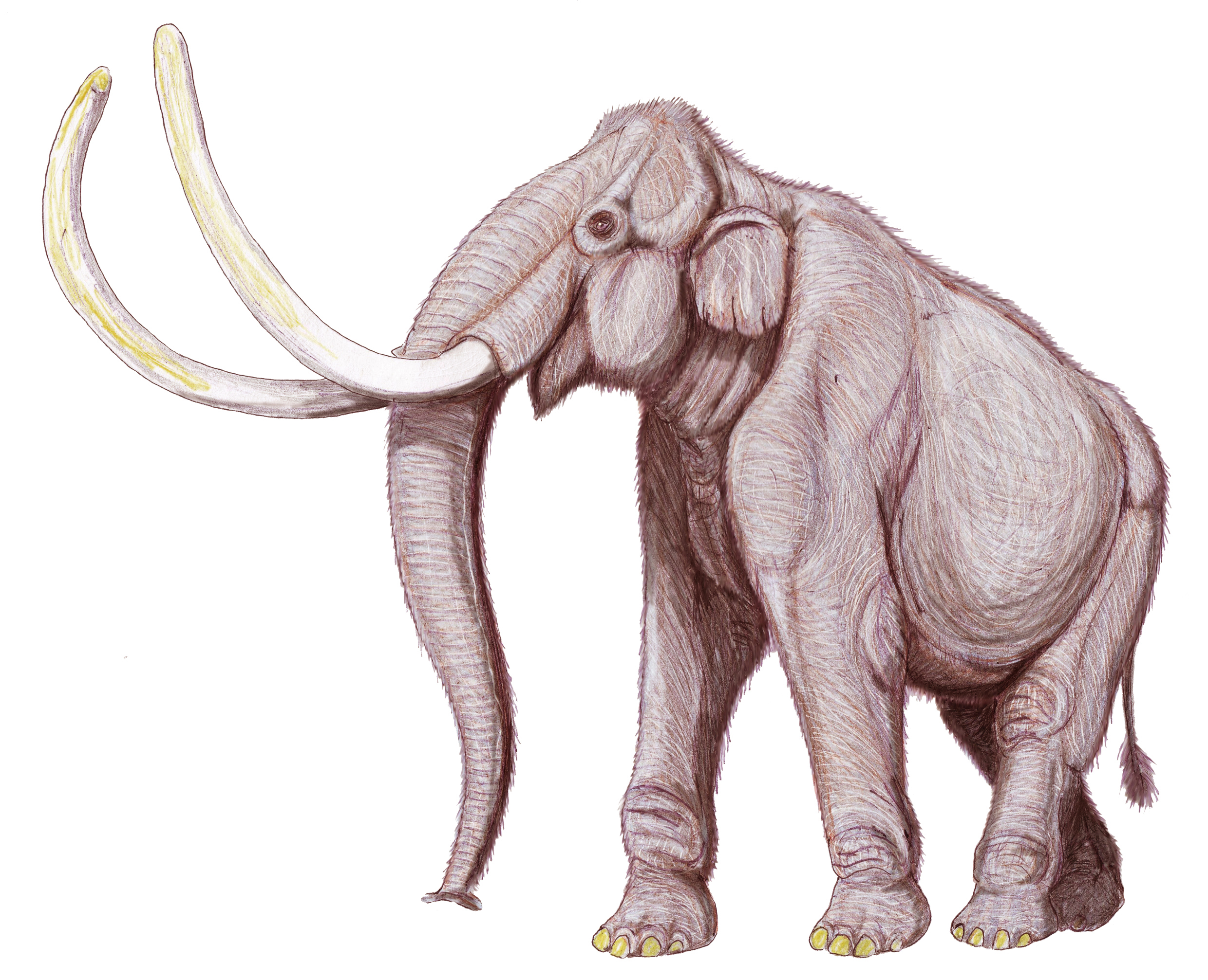 Mammuthus columbi (= Archidiskodon imperator maibeni) based on specimen from the Pleistocene of Nebraska